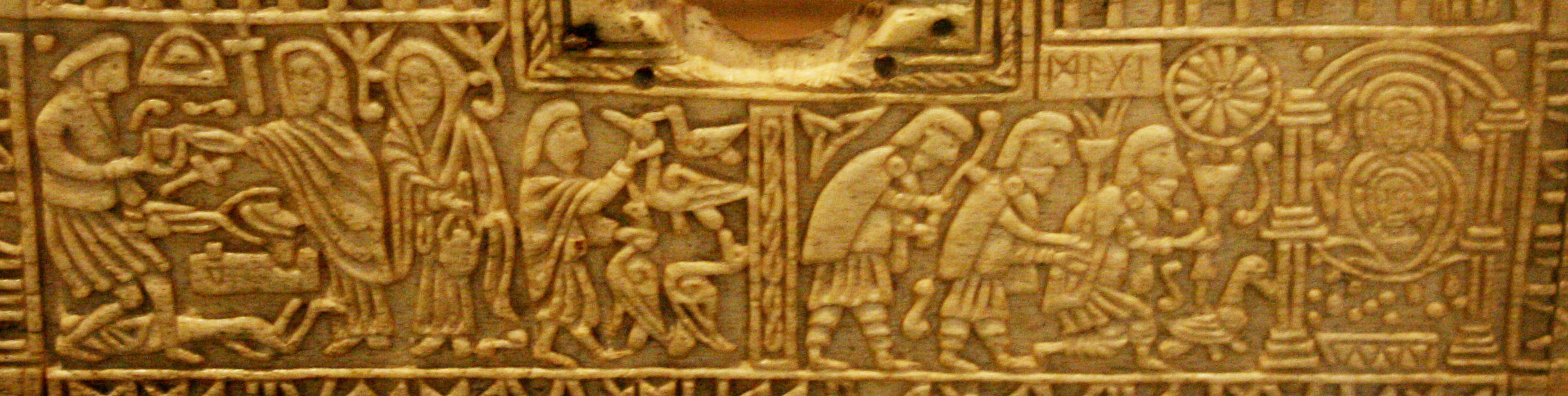 Detail of the front panel of the Franks Casket, cropped from Franks_casket_03.jpg (original by Michel wal), and lightened.